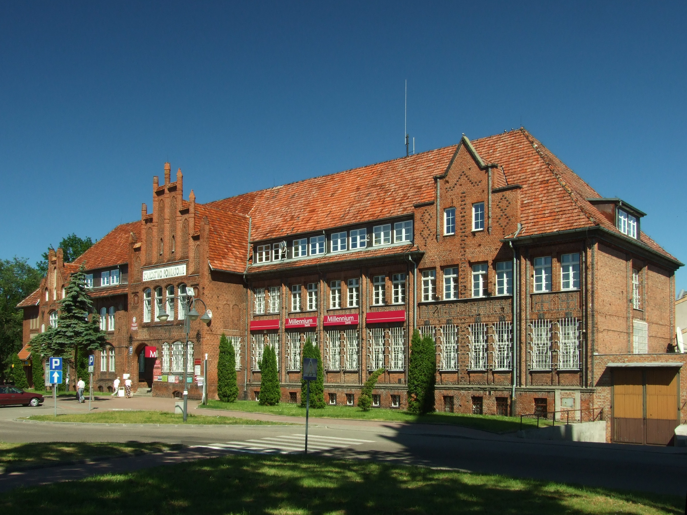 Powiat building in Malbork, Poland